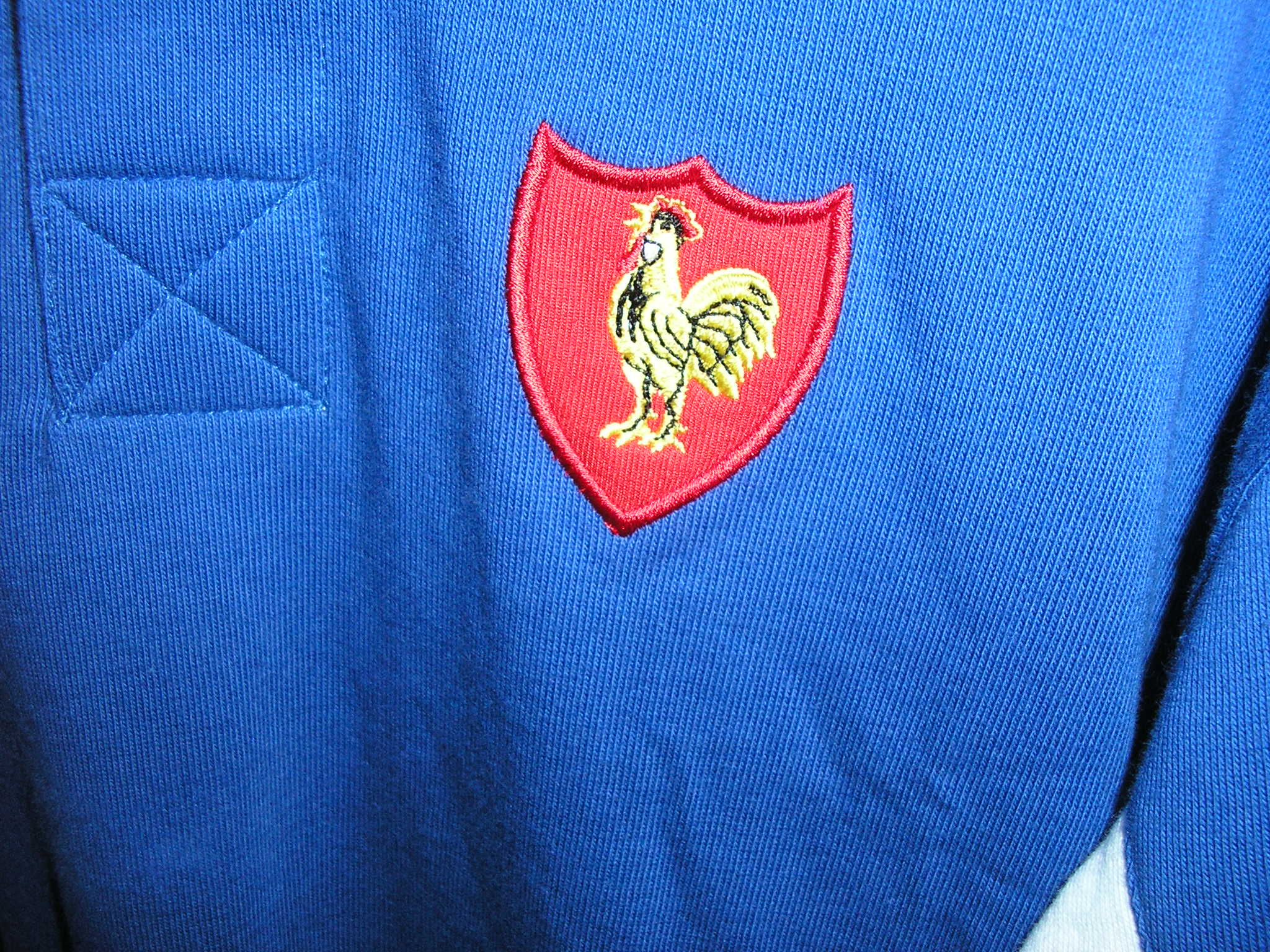 France national rugby union logo